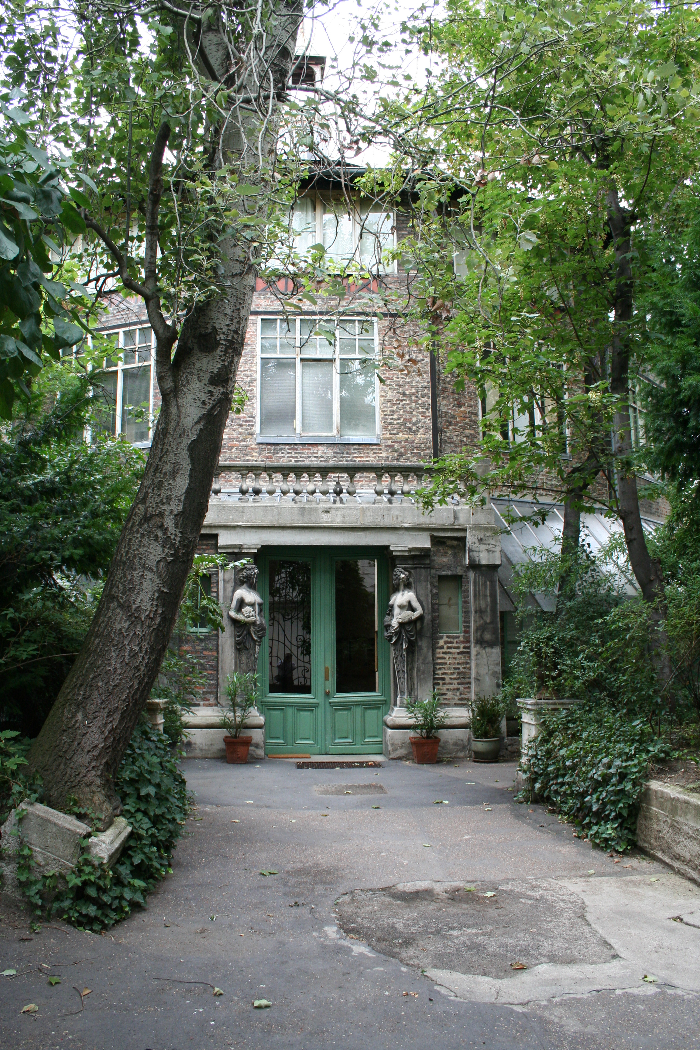 Entrance to "La Ruche", Paris 15th, France.